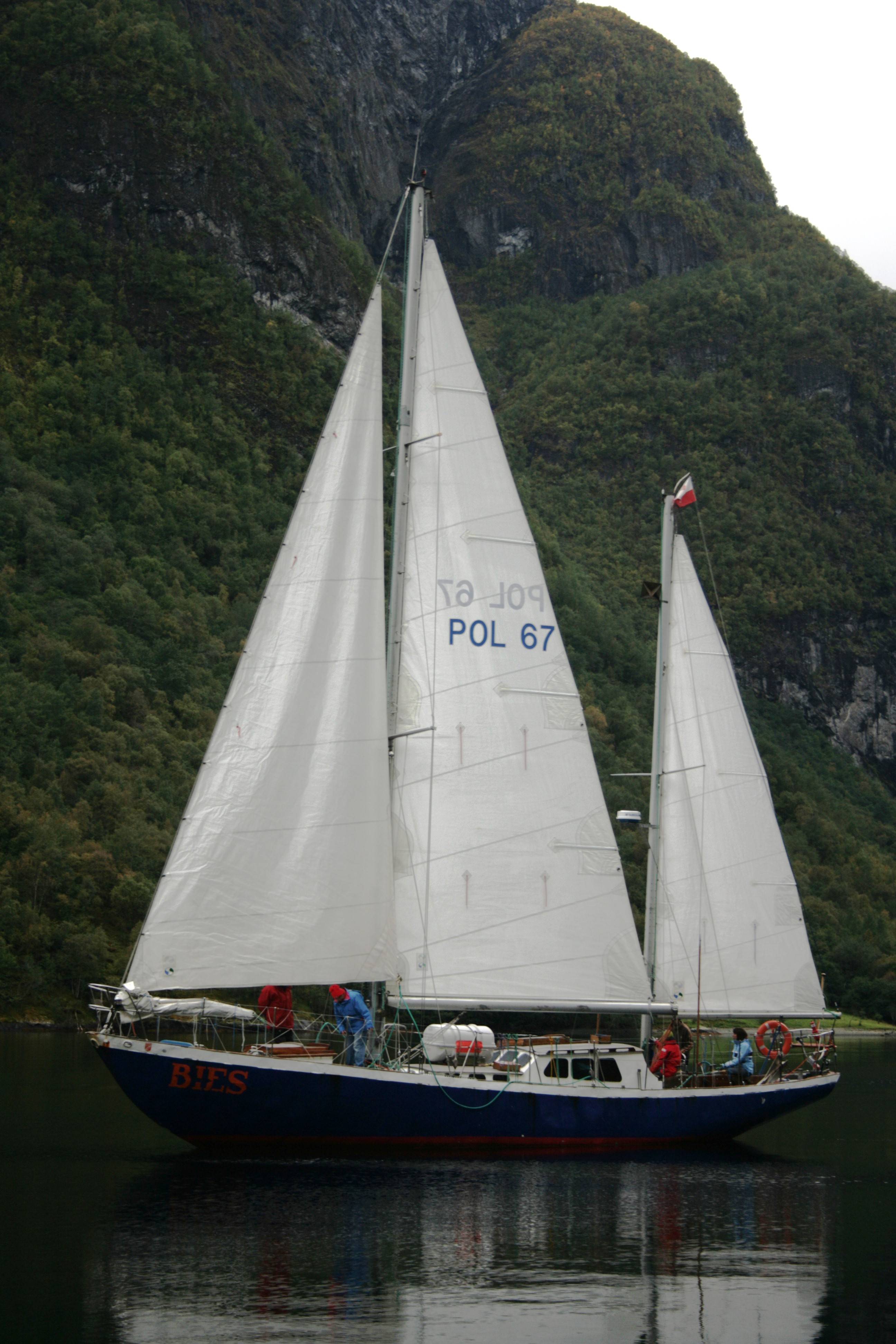 SY Bies in Nærøyfjord